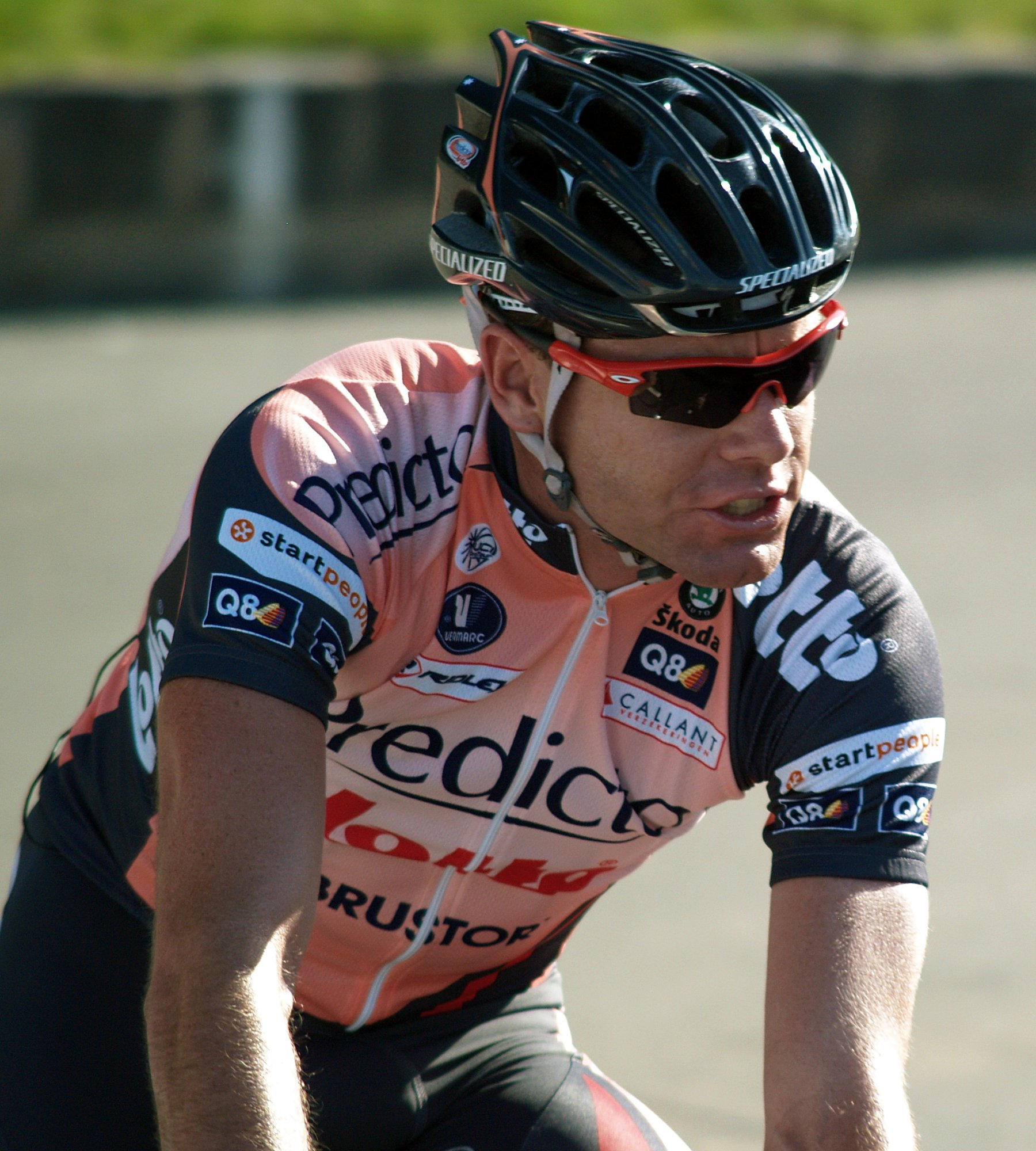 Australian cyclist Cadel Evans (Predictor-Lotto) prior to Stage 3 of the 2008 Bay Cycling Classic, Ritchie Boulevard, Geelong, Australia.